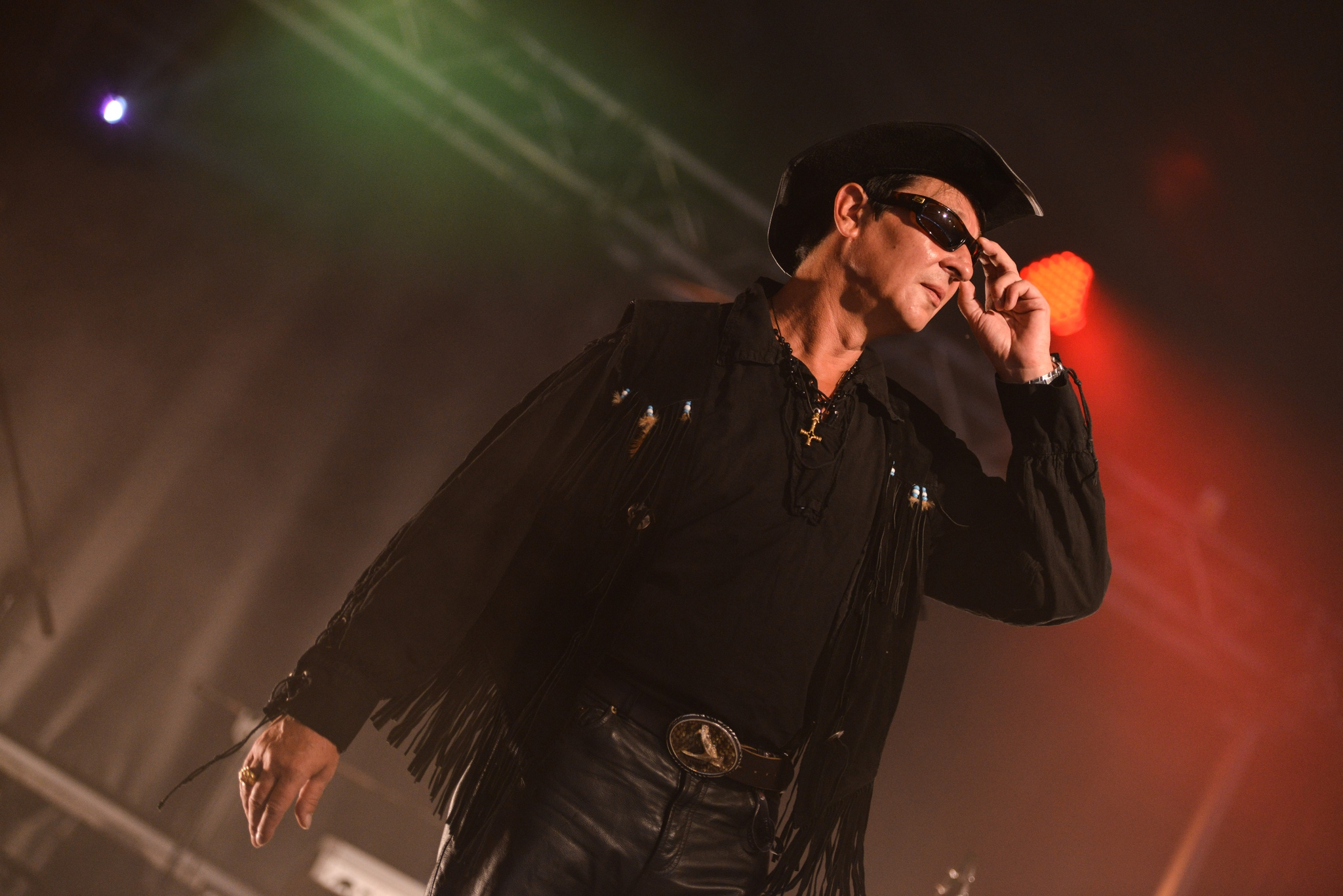 Polish vocalist, Maciej Malenczuk during concert with his project Psychocountry Bielsko-Biala, Poland, 2013